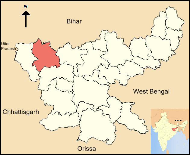 A locator map of Palamu district, Jharkhand state, India